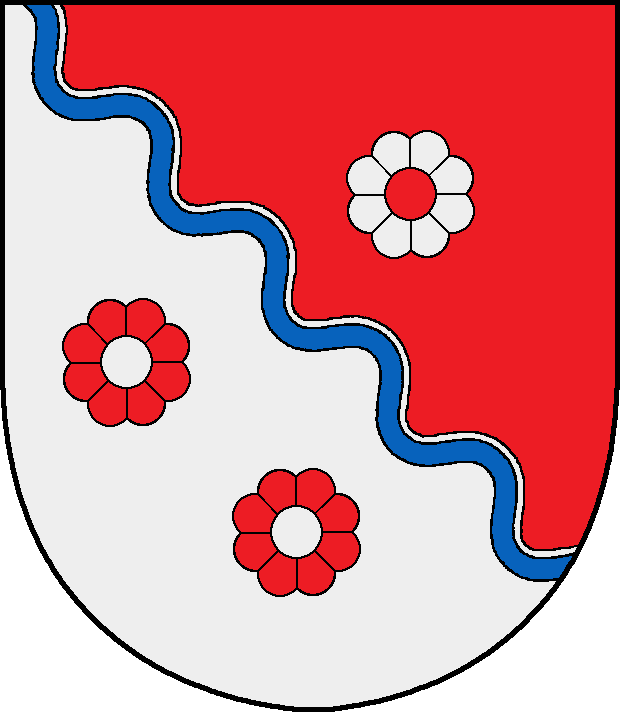 Coat of arms of the municipality Rondeshagen in Schleswig-Holstein, Germany.